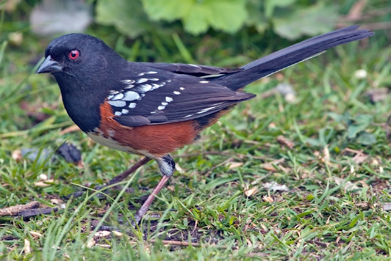 Spotted Towhee (Pipilo maculatus), Burnaby Lake Regional Park (Piper Spit), Burnaby, British Columbia